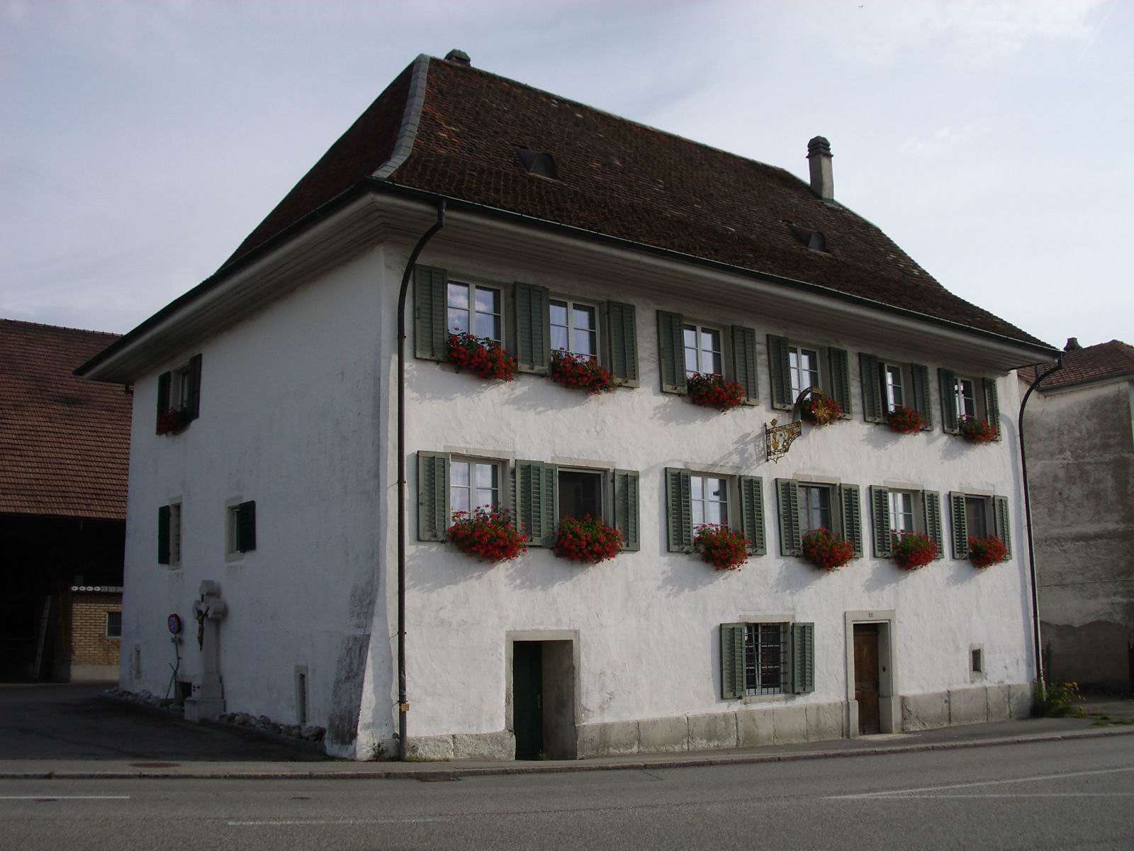 Restaurant Sonne at Hägendorf SO, Switzerland